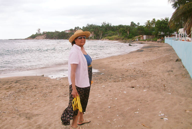 Treasure Beach, Jamaica looking west. Photo by User:Op Deo November 10,2005.